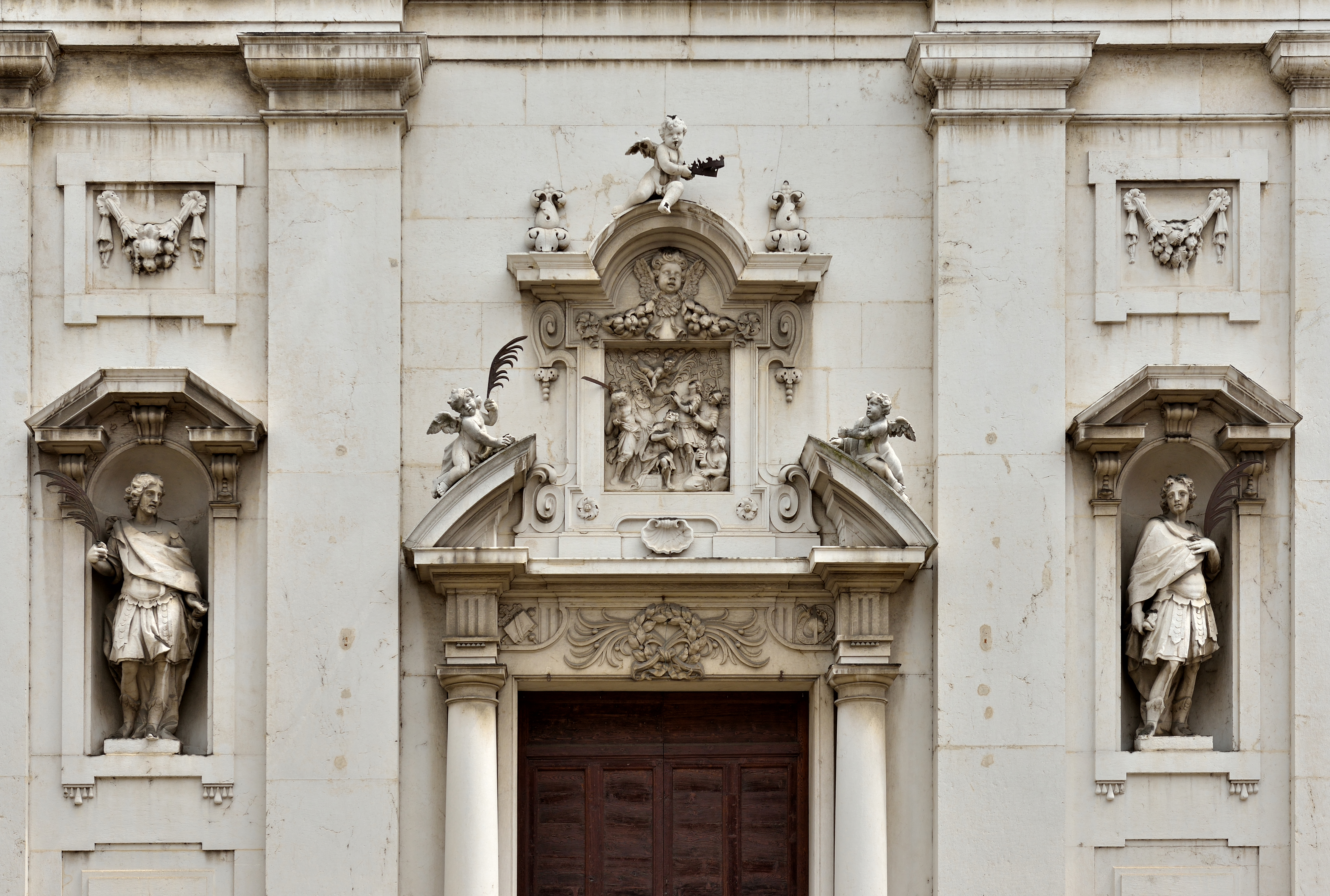 Detail of the facade of the "Santi Faustino e Giovita" church in Brescia Italy - Statues by Santo Calegari il Vecchio (1662-1717)